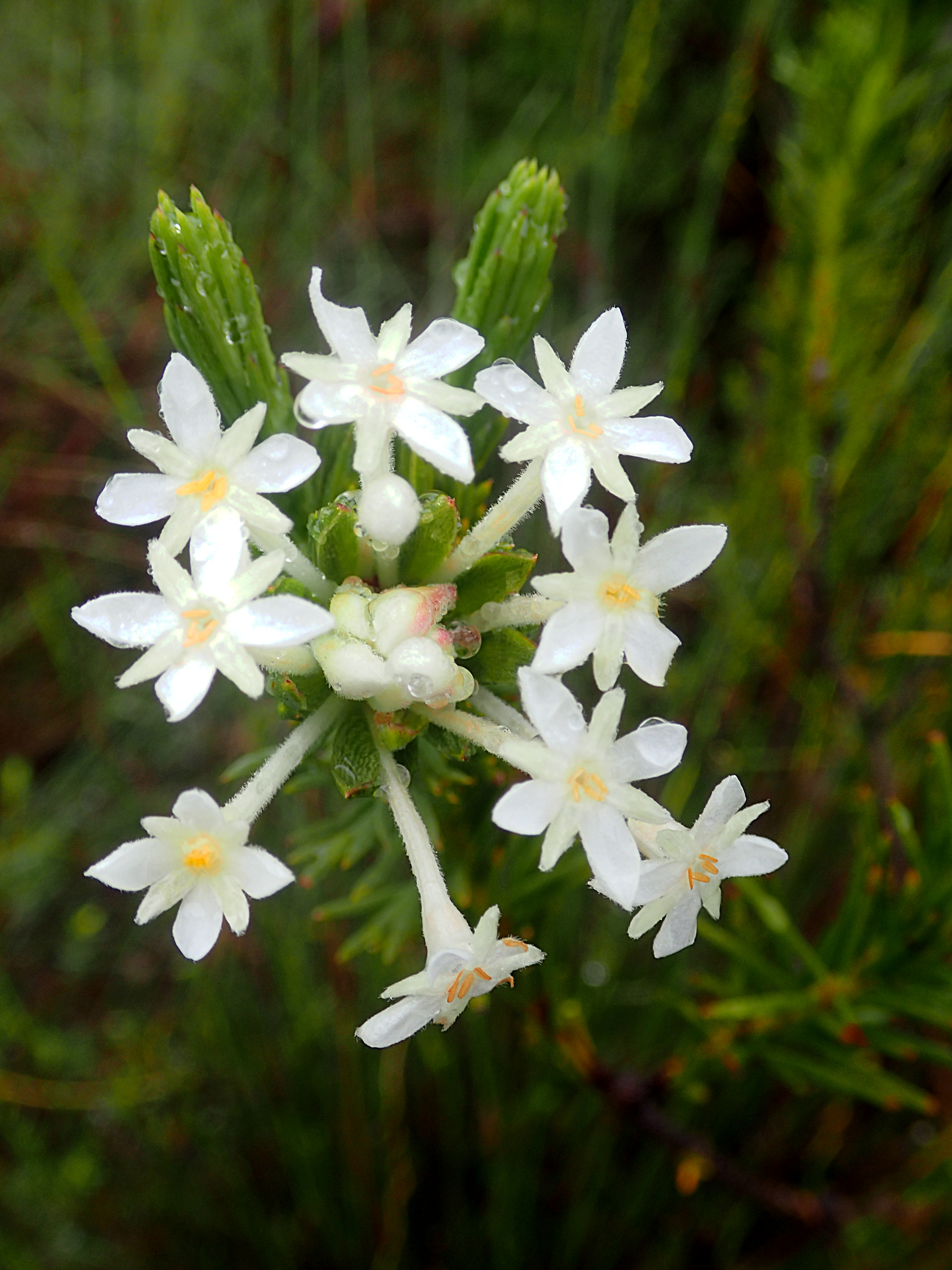 pine-leaf saffron bush Gnidia pinifolia, photographed in the Kogelberg area above Bettys bay, South Africa